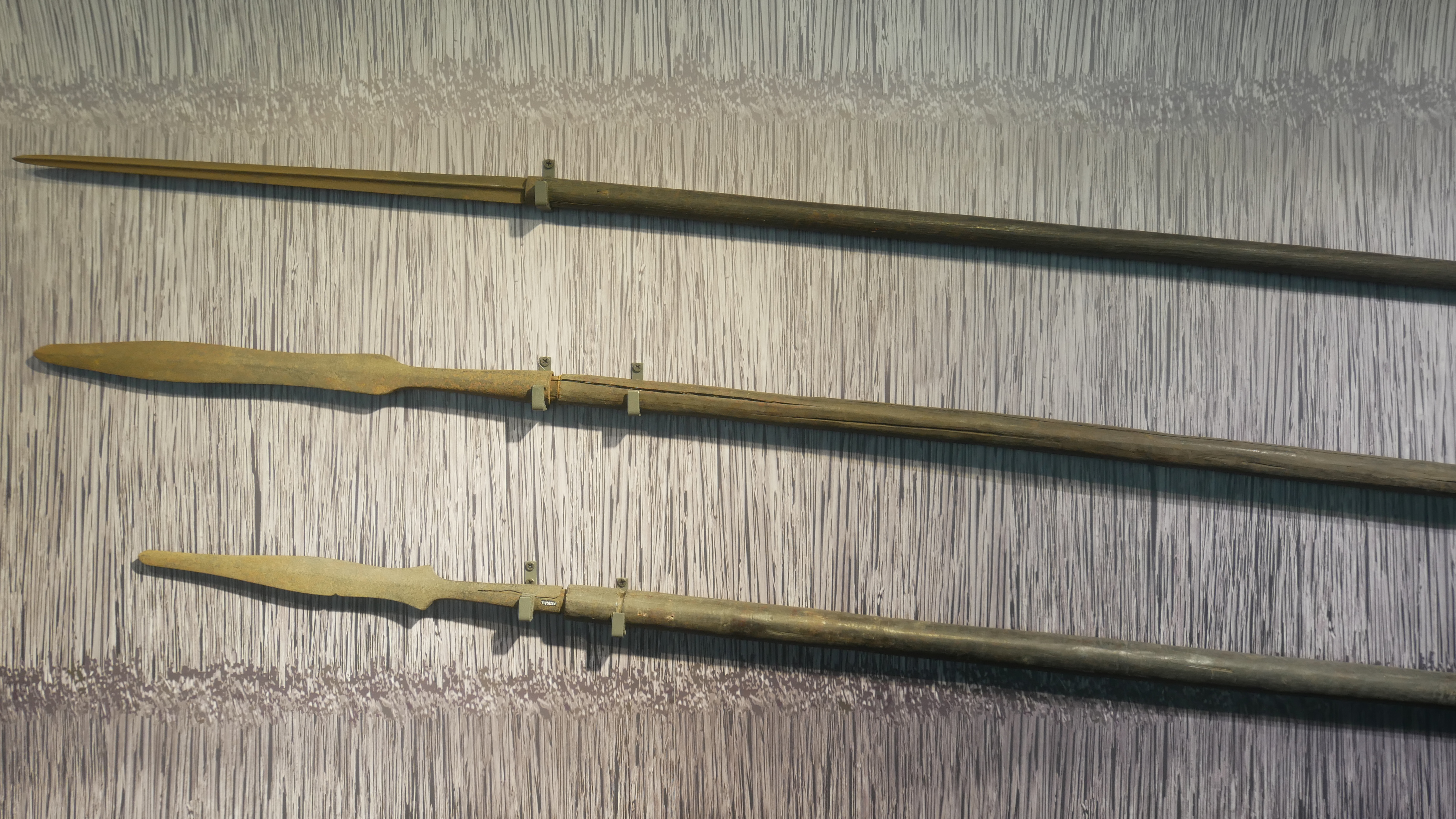 排灣族太麻里社（臺東廳臺東郡太麻里庄太麻里）木槍，臺北市中正區城內次分區黎明里